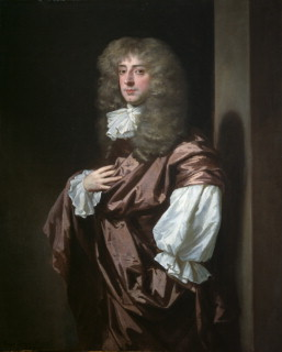 Thomas Thynne, 1st Viscount Weymouth (1640-1714)